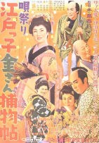 Movie poster for 1955 Japanese movie Utamatsuri Edokko Kin-san torimonochō (唄祭り 江戸っ子金さん捕物帖).